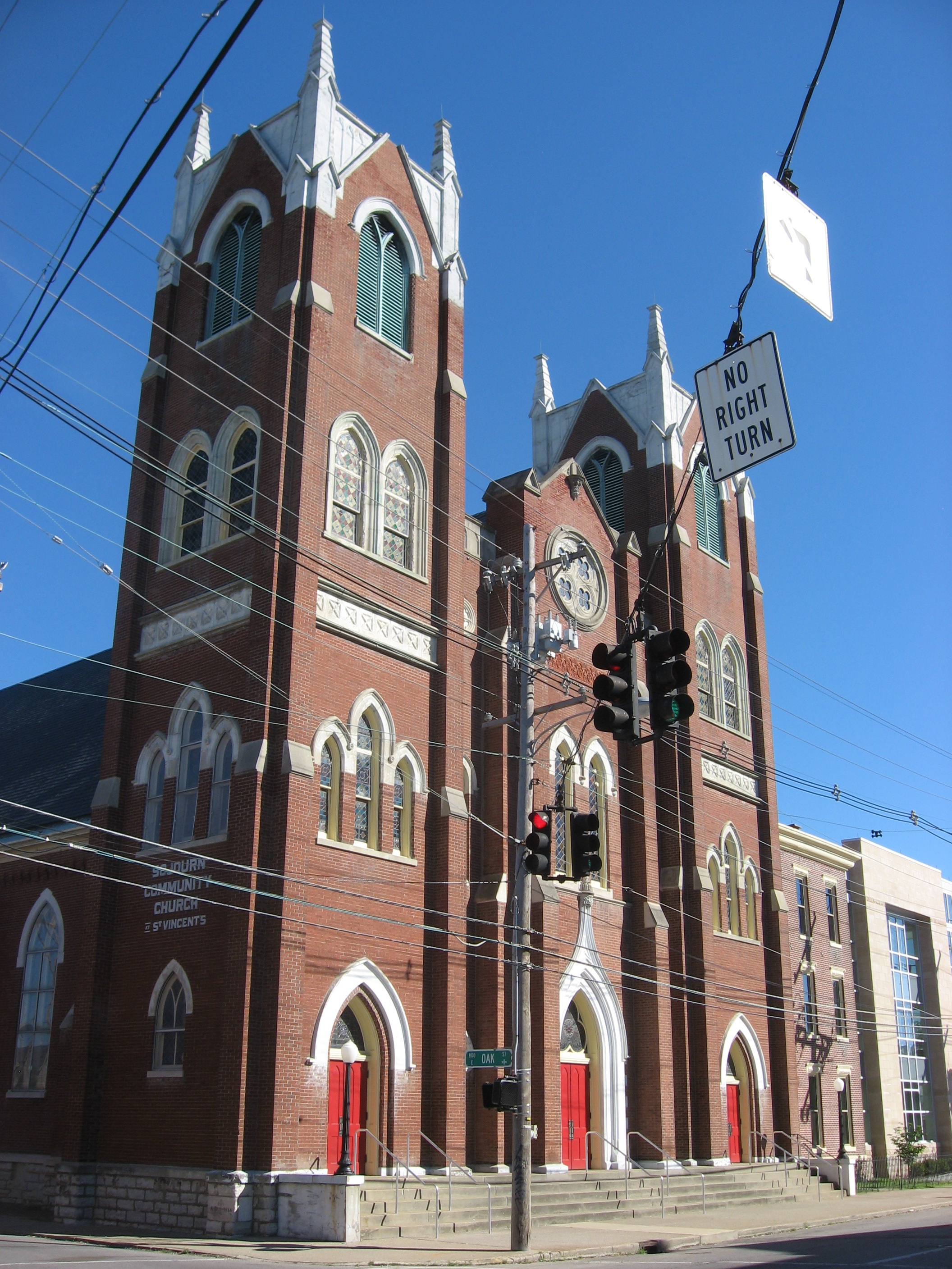 Front of the former St. Vincent de Paul Catholic Church (now used by a congregation of a tiny Protestant denomination), located at 1207 S. Shelby Street in Louisville, Kentucky, United States. Built in 1884, it is listed on the National Register of Historic Places.